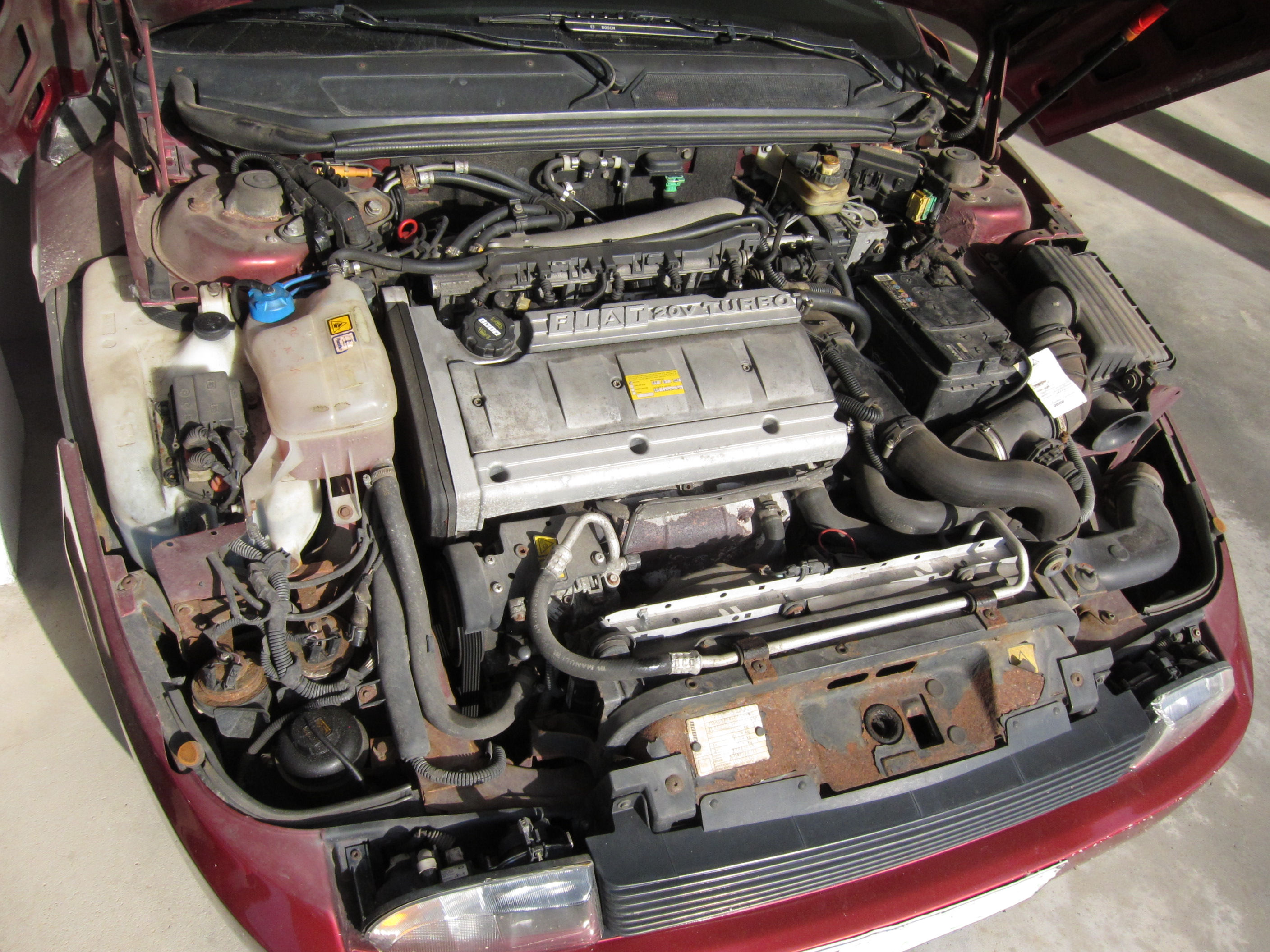 Fiat Coupé 20V Turbo Engine, 1998 model